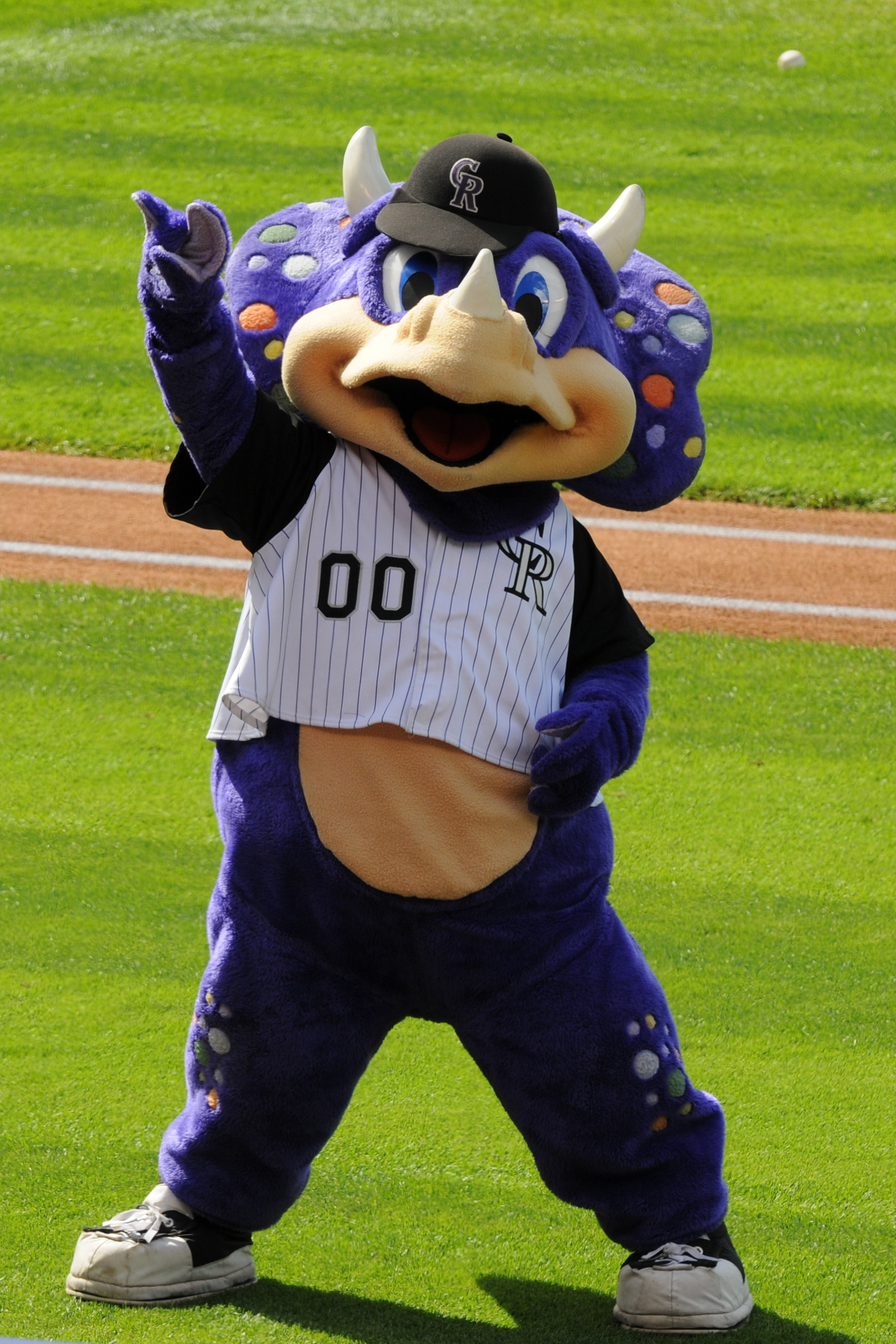 Description "Dinger", Colorado Rockies mascot - own workSource I created this work entirely by myself.Author Onetwo1 (talk) 15:28, 8 August 2008 . . Onetwo1 . . 1,764×2,644 (881 KB) "Dinger", Colorado Rockies mascot - own work